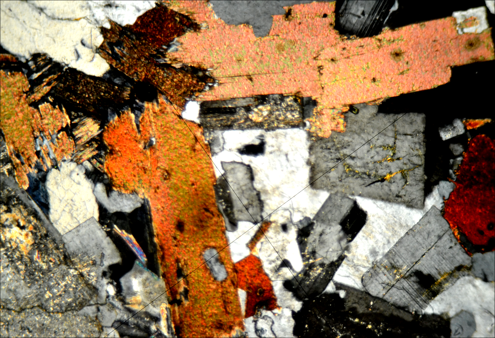 Granodiorite observed with polarized light (zoom x40)